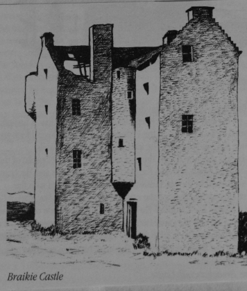 Braikie Castle by David MacGibbon